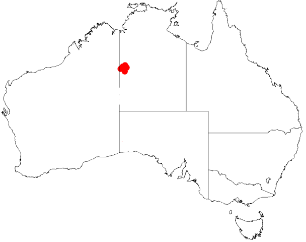 Acacia abbreviata Occurrence data from Australasia Virtual Herbarium downloaded from on 8 December 2018